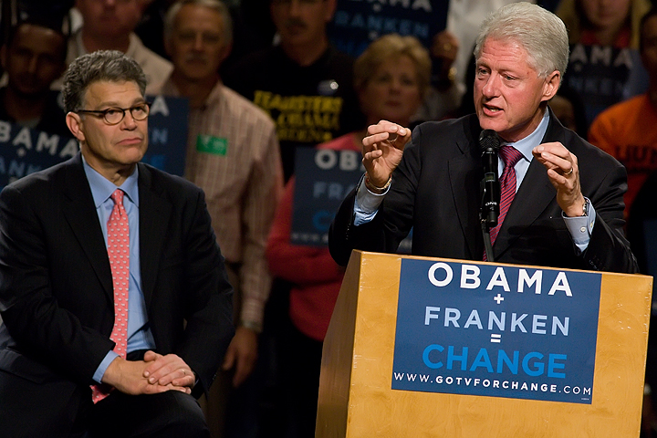 Former U.S. President Bill Clinton speaks at a rally on Oct. 30, 2008 in support of Barack Obama, Al Franken and other Minnesota Democratic candidates.